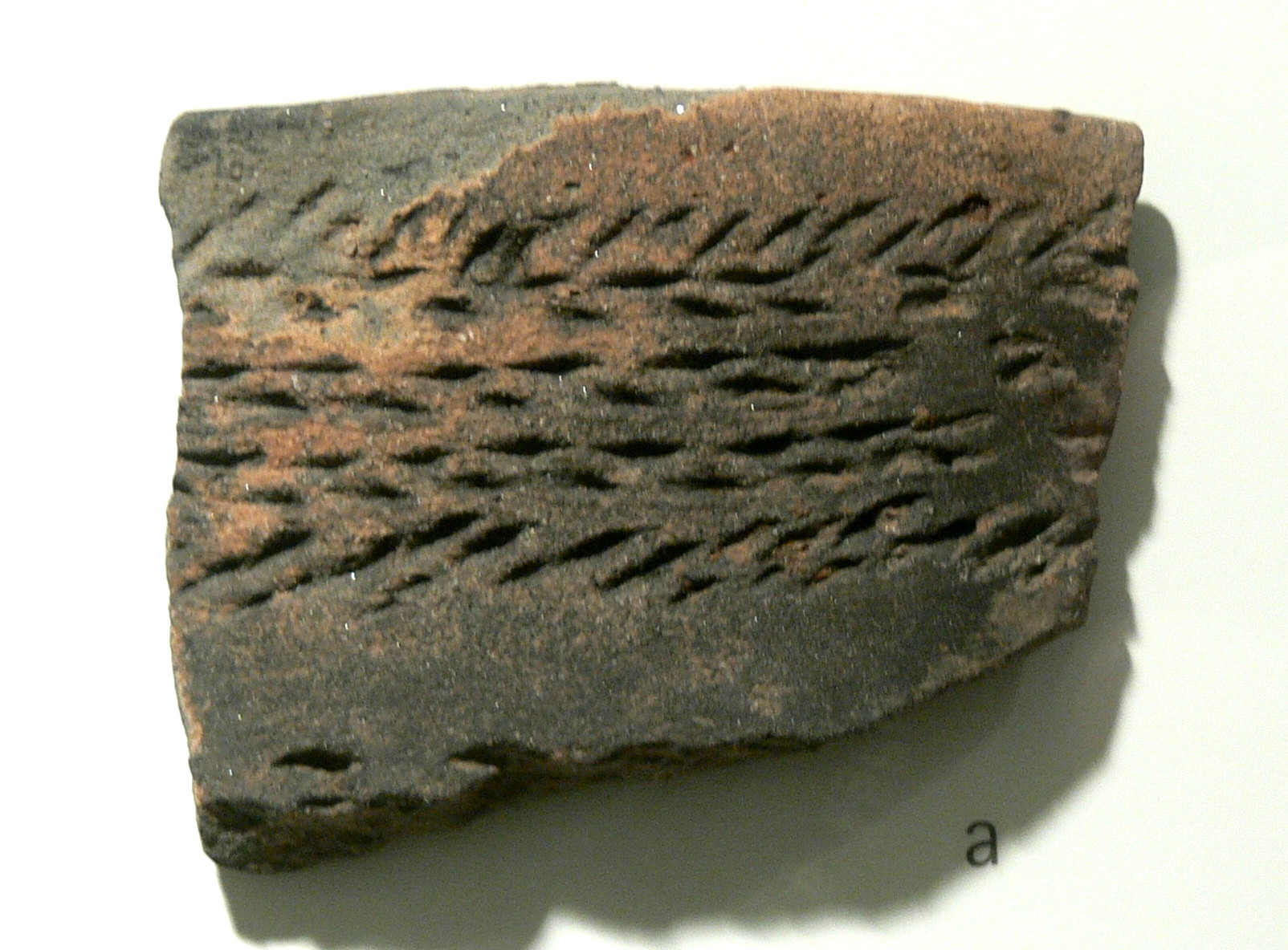 Archaeological museum Gunzenhausen ( Bavaria ). Neolithic stroke-ornamented ceramics ( 4000 BC ).